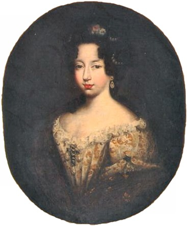 Showing the daughter of Philippe I Duke of Orléans and niece of Louis XIV; wife of the Duke of Savoy; later Queen of Sardinia.